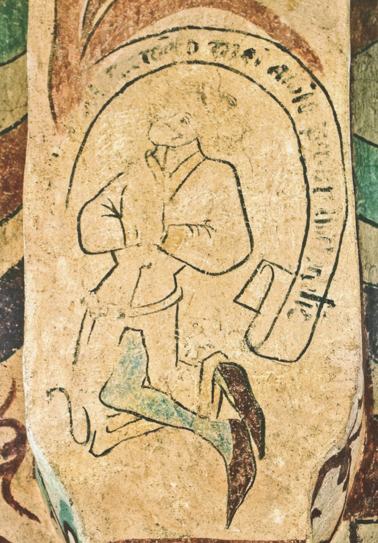 Wall painting Lids Church, Sweden. Self-portrait by Albertus Pictor. The latin text says "Remember me, Albertus, painter of this church".